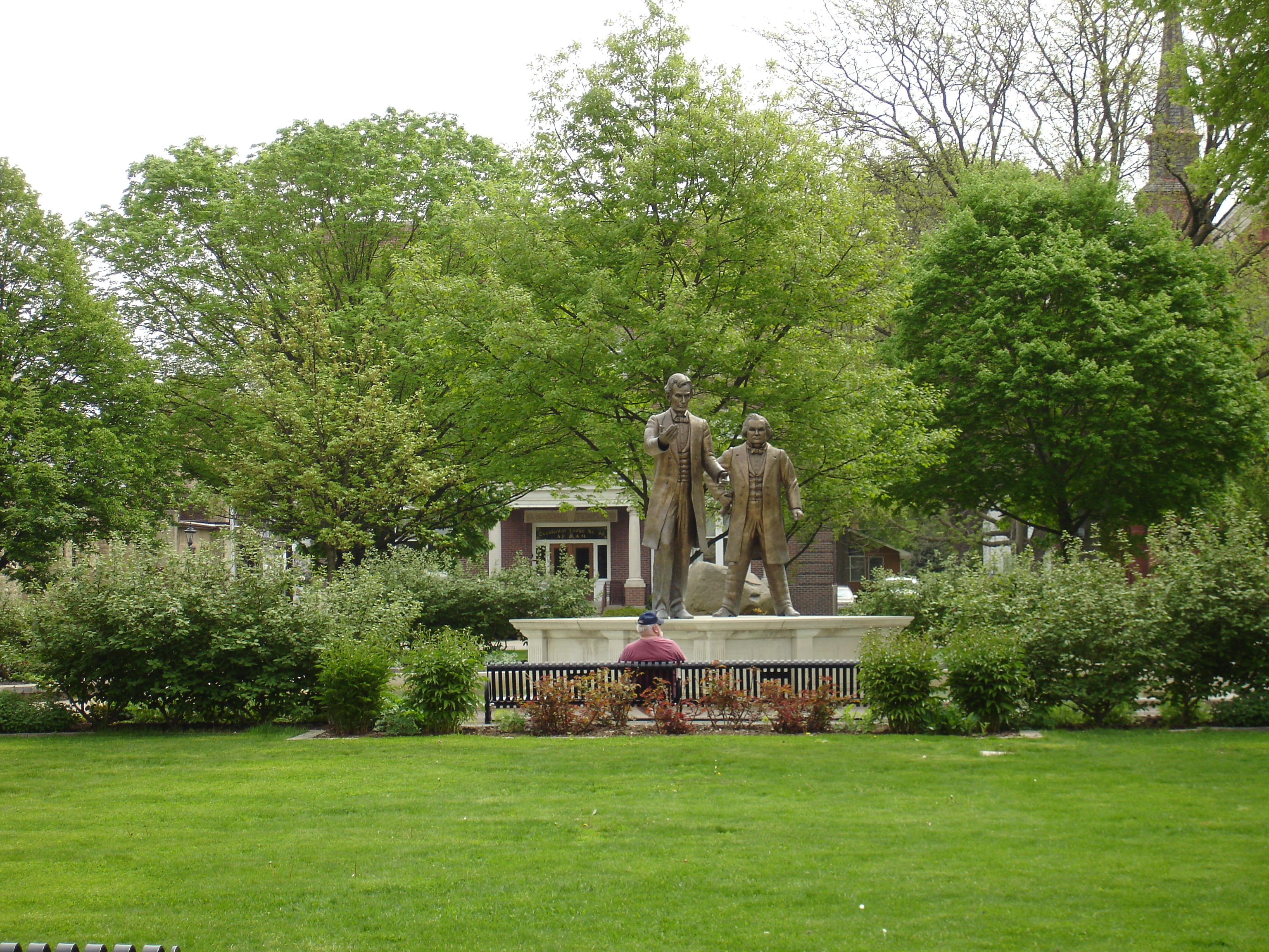 Statues of Abraham Lincoln and Stephen A. Douglas in Washington Park, Ottawa, Illinois USA, near the site of the first of the 1858 Lincoln-Douglas Debates.